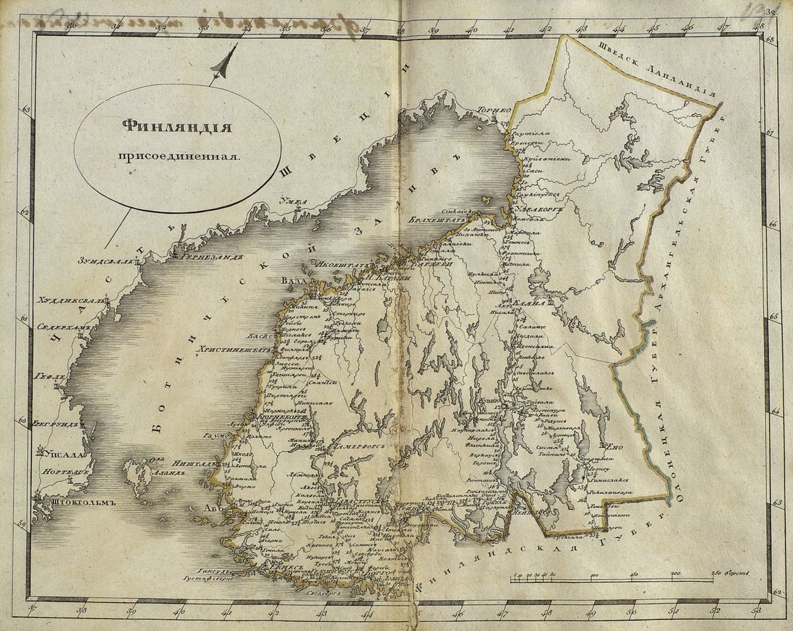 Finlandia